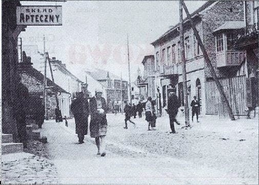 City of Ostroleka (Poland), 11 Listopada Street (Glowackiego Street today) after the first world war.